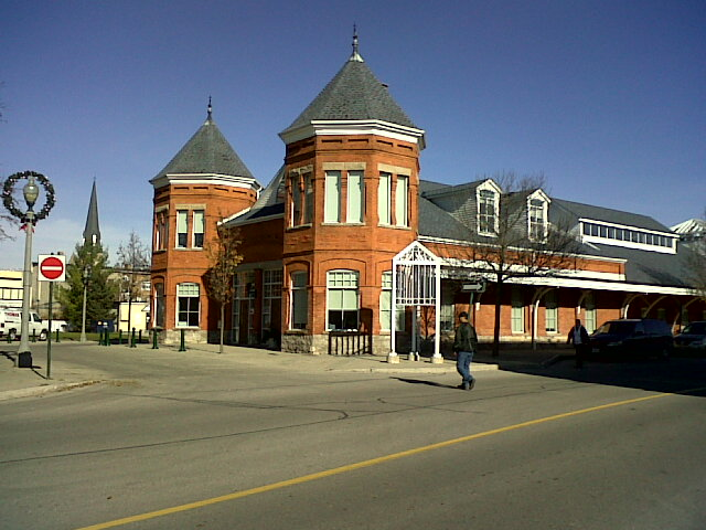 Woodstock Market Building, circa 1900. Located on Reeve Street, beside Market Square and the Woodstock Museum.